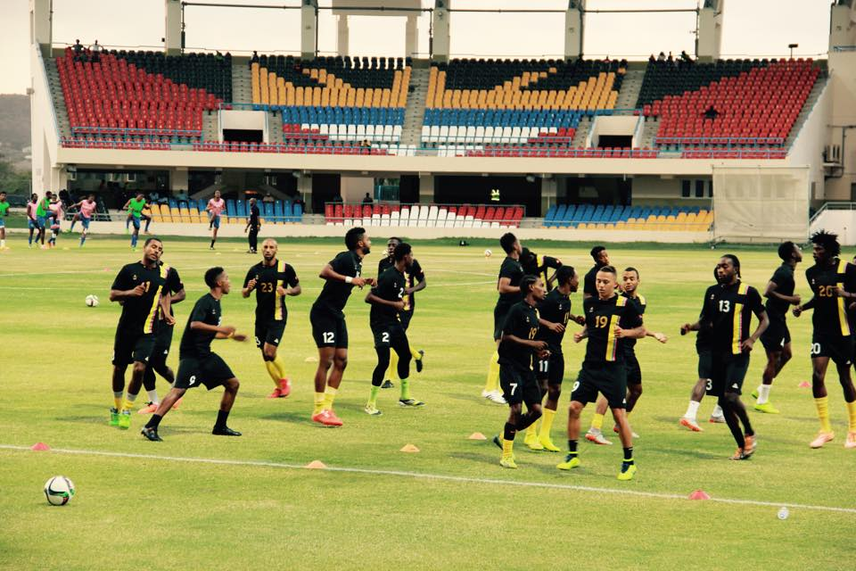 Antigua and Barbuda national football team pre-game warm-ups ahead of their second leg clash versus Saint Lucia on June 14th, 2015.